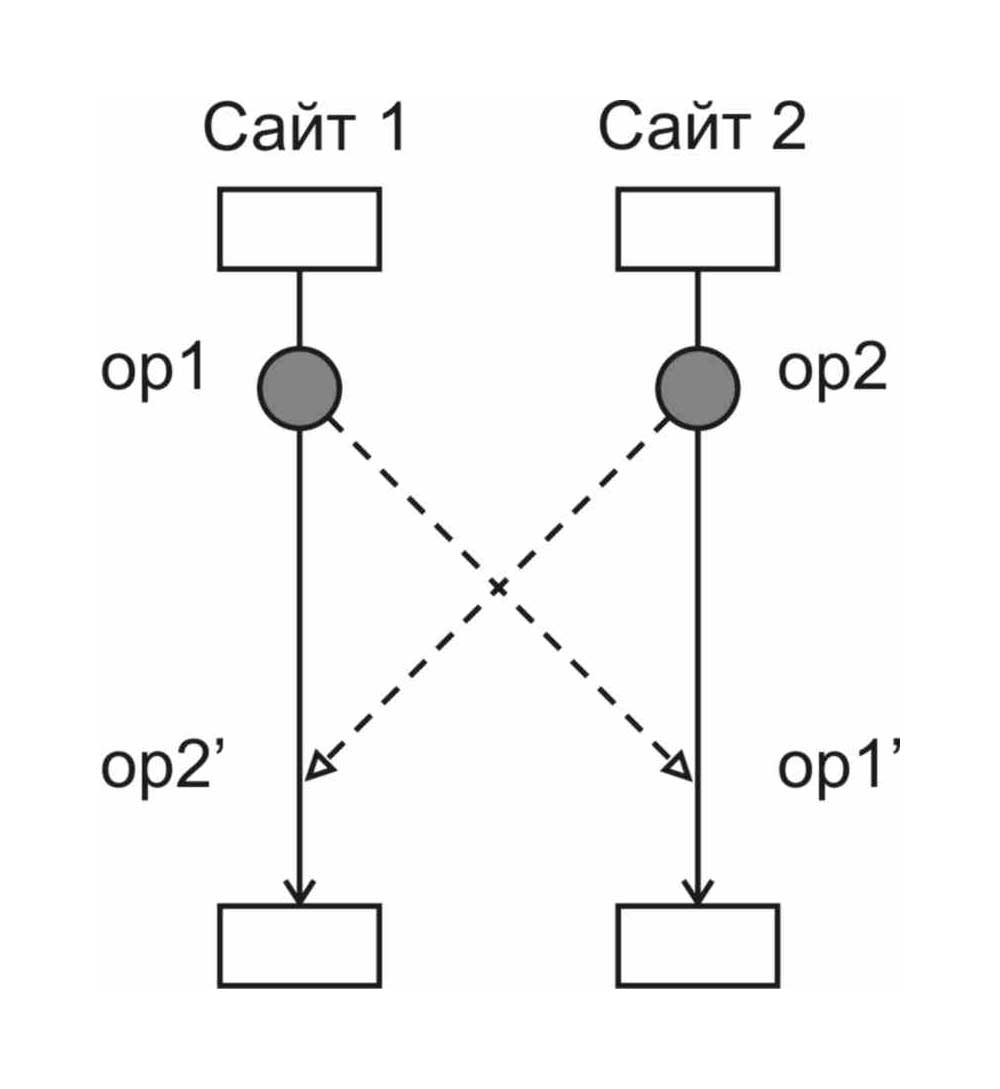 Illustration of the TP1 property